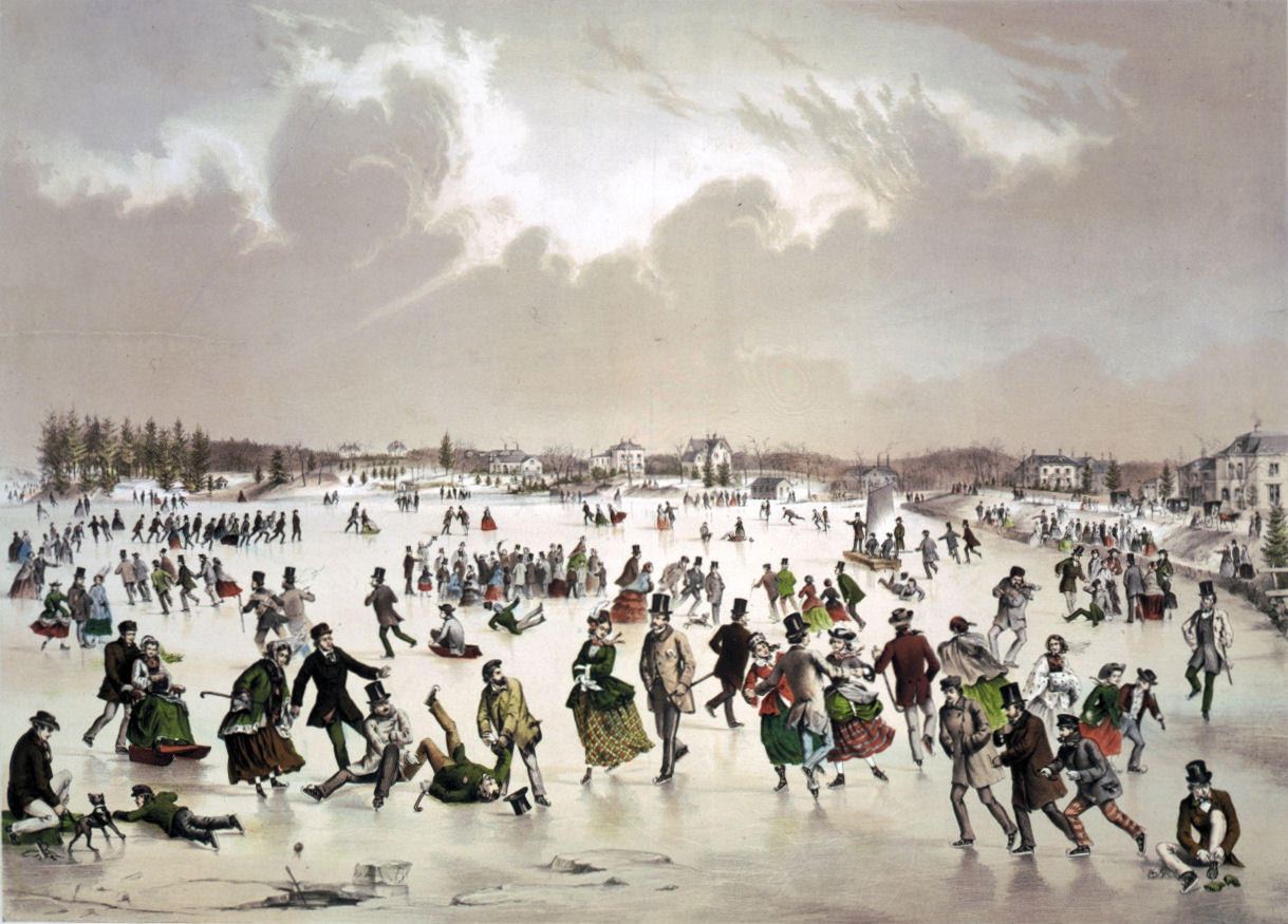 People ice skating on Jamaica Pond, West Roxbury, Mass.